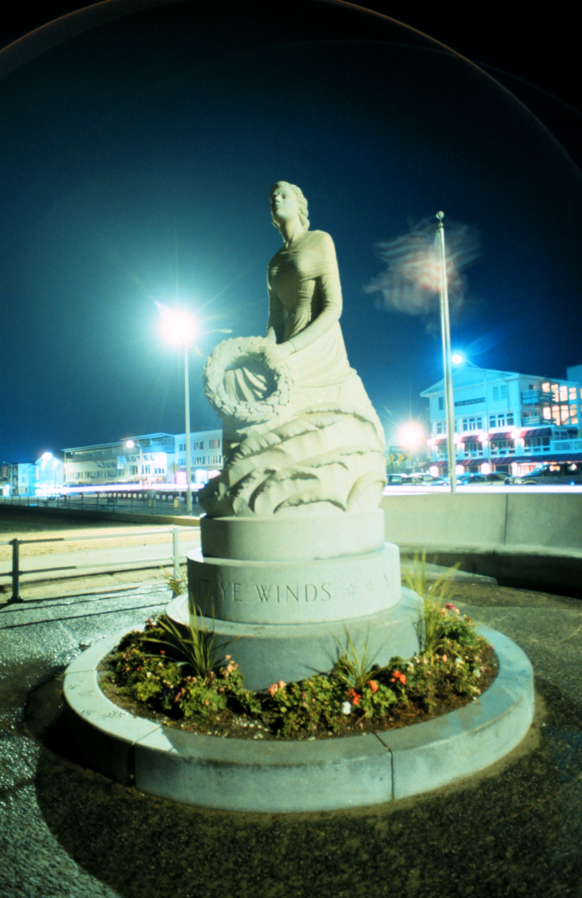 New Hampshire Marine Memorial, Portsmouth, New Hampshire. Dedicated May 30, 1957